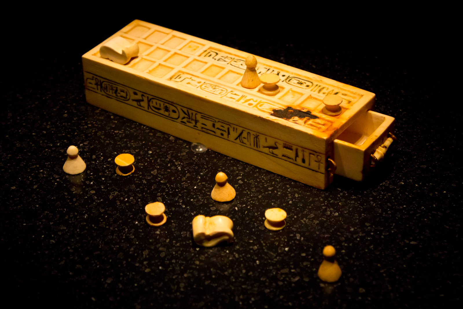 A game box and pieces for playing the game of the Royal Game of Ur found within the intact KV62 tomb of king Tutankhamun. This object is today part of the permanent collection of the Cairo Museum of Egypt. This photo was taken at the King Tut exhibition at the Pacific Science Center in Seattle, Washington State, USA.